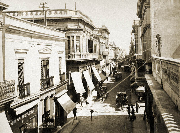 Florida street ("Calle Florida") in the city of Buenos Aires.